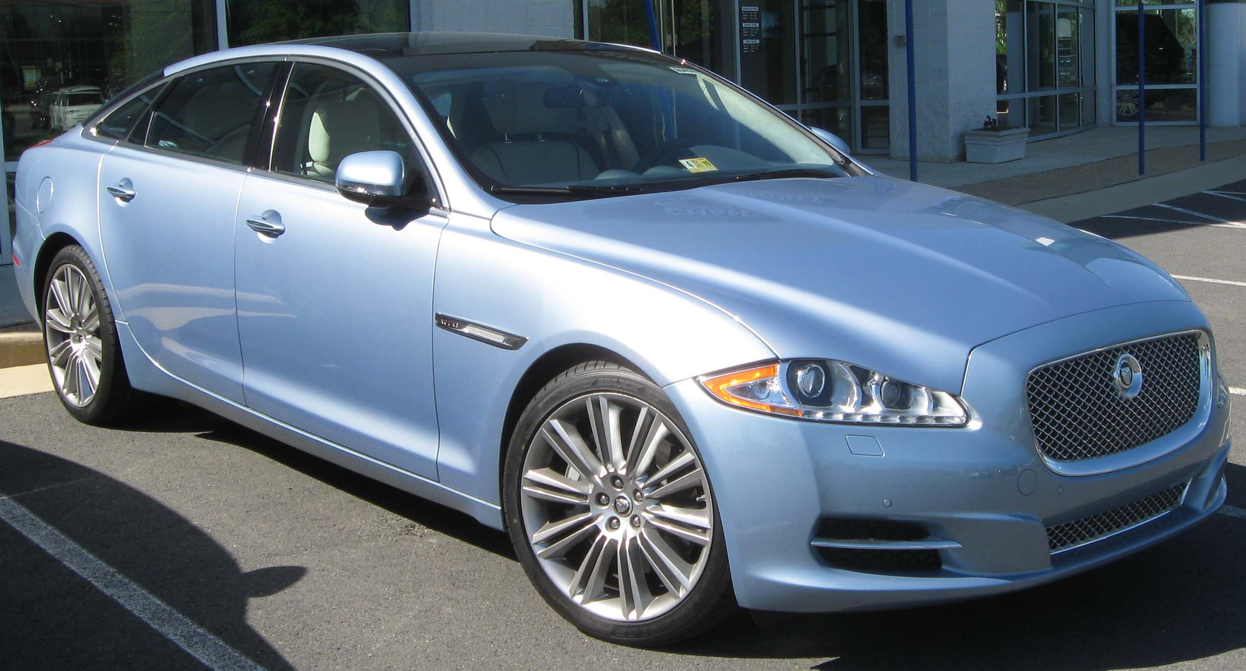 2011 Jaguar XJ-L photographed in Chantilly, Virginia, USA.